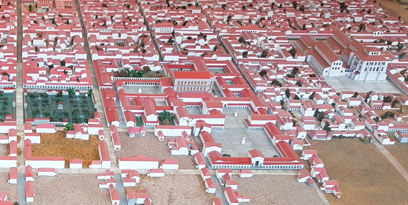 Detail of the scale model of the Roman city of Trier (Augusta Treverorum) in the collection of Rheinisches Landesmuseum Trier, Germany. In the centre the imperial palace with the Basilica of Constantine (which still exists). On the right the basilica that is now Trier Cathedral.